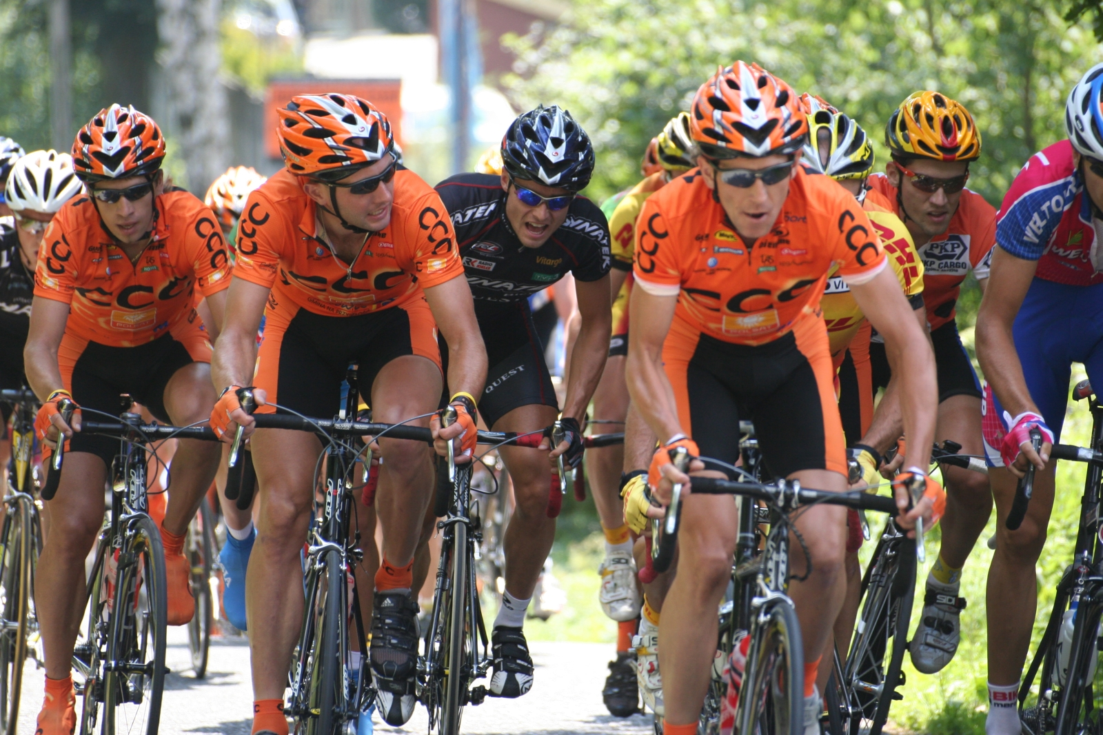 Małopolski Wyścig Górski. Kolarze podczas pokonywania podjazdu w okolicach Swiątnik Górnych.